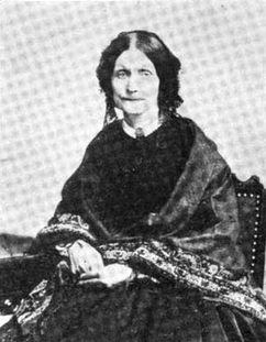 Fidelia Fiske, from a 1909 publication.